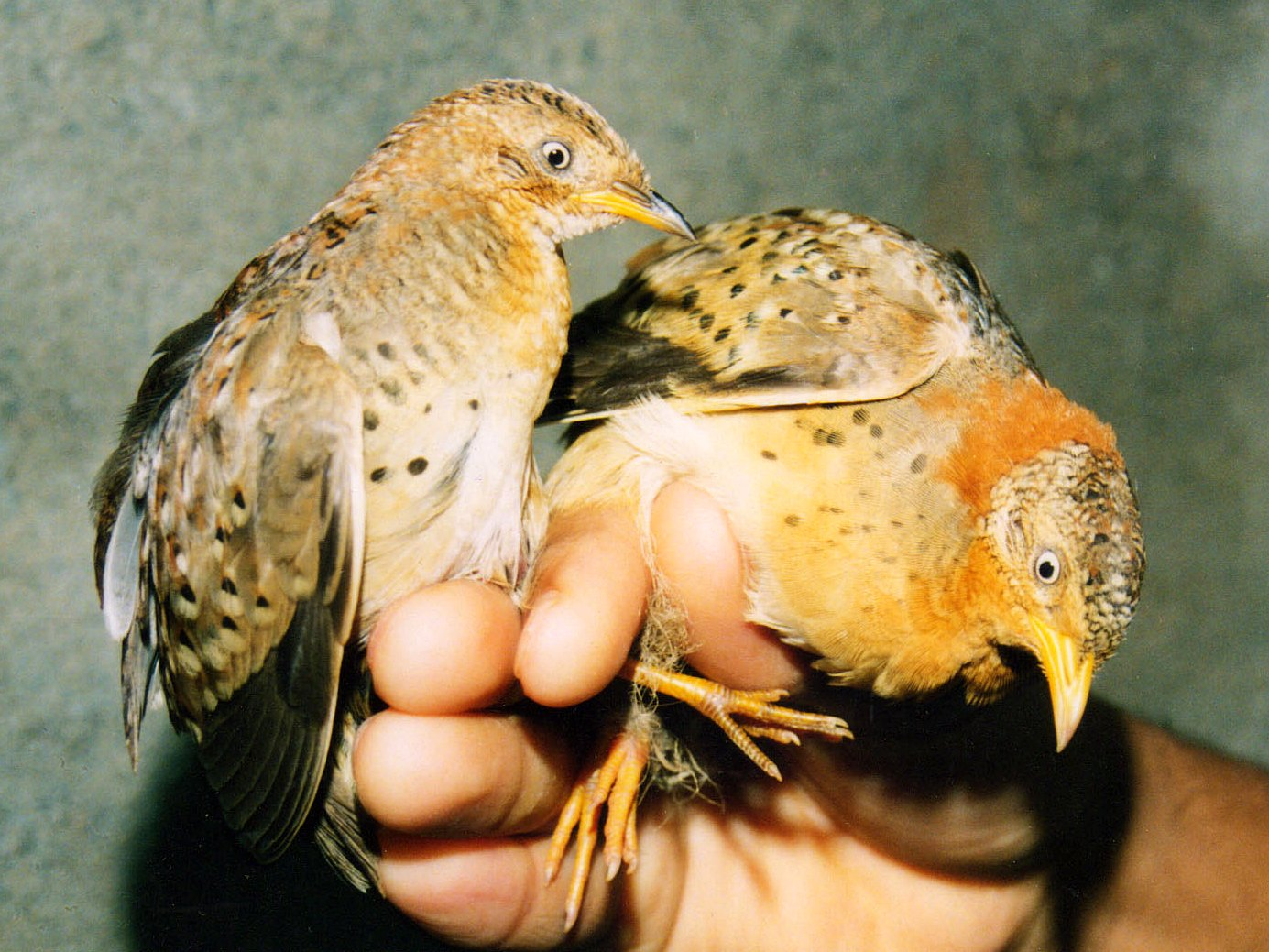 Yellow-legged Button Quails Turnix tanki Amravati (3). Maharashtra, India